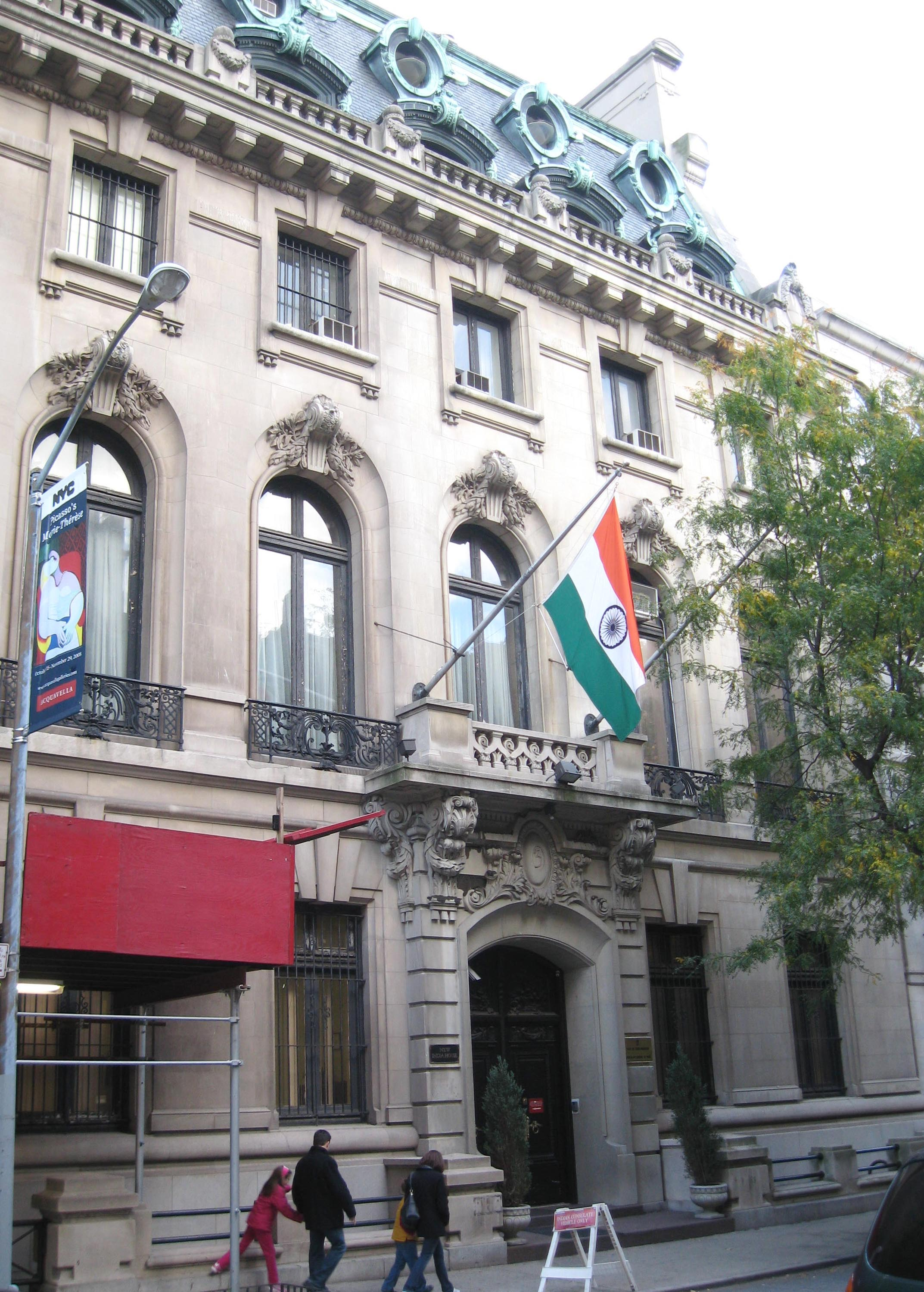 Looking northeast across en:64th Street (Manhattan) at New India House at 3 East 64th Street on a sunny afternoon